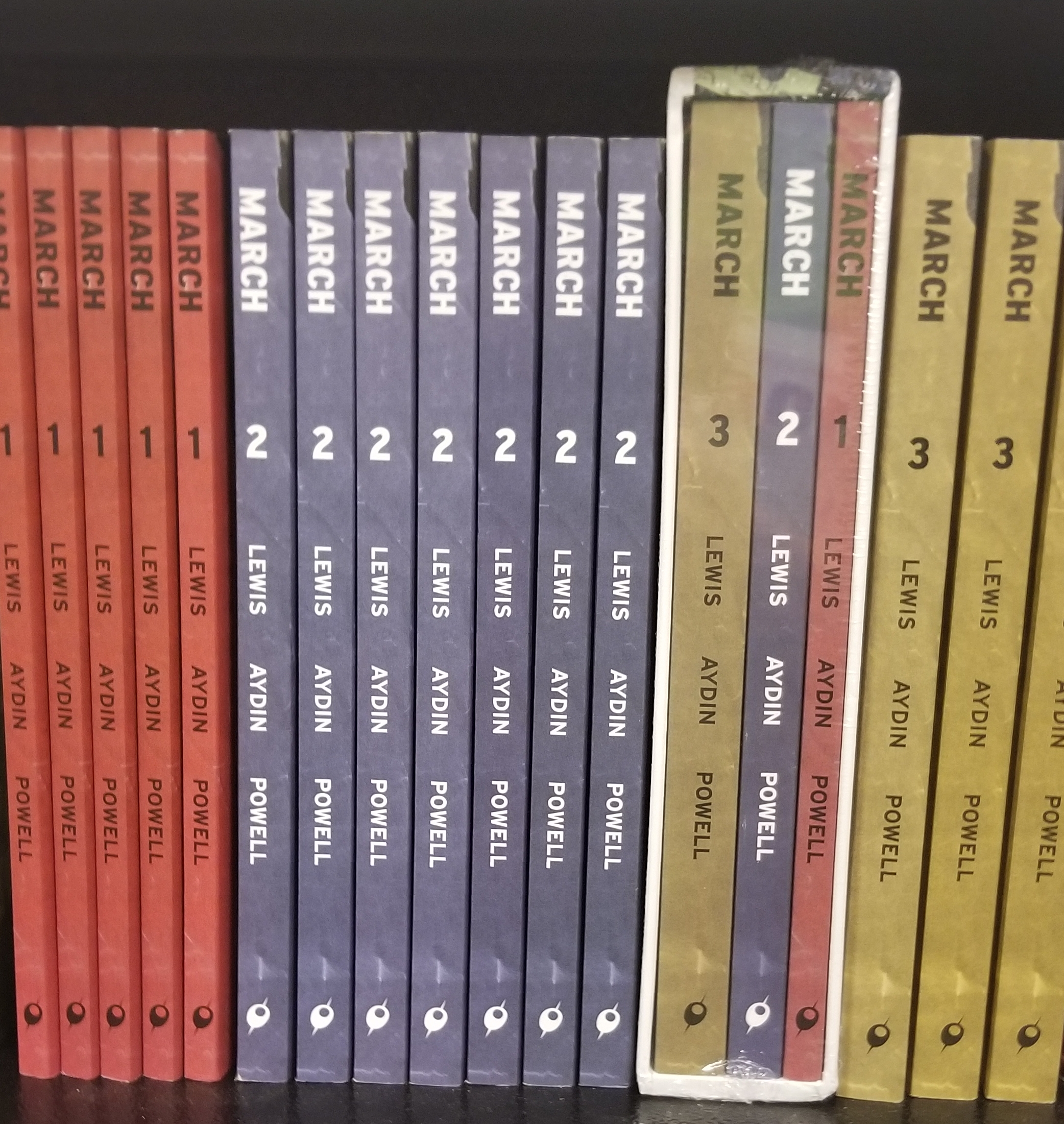 March